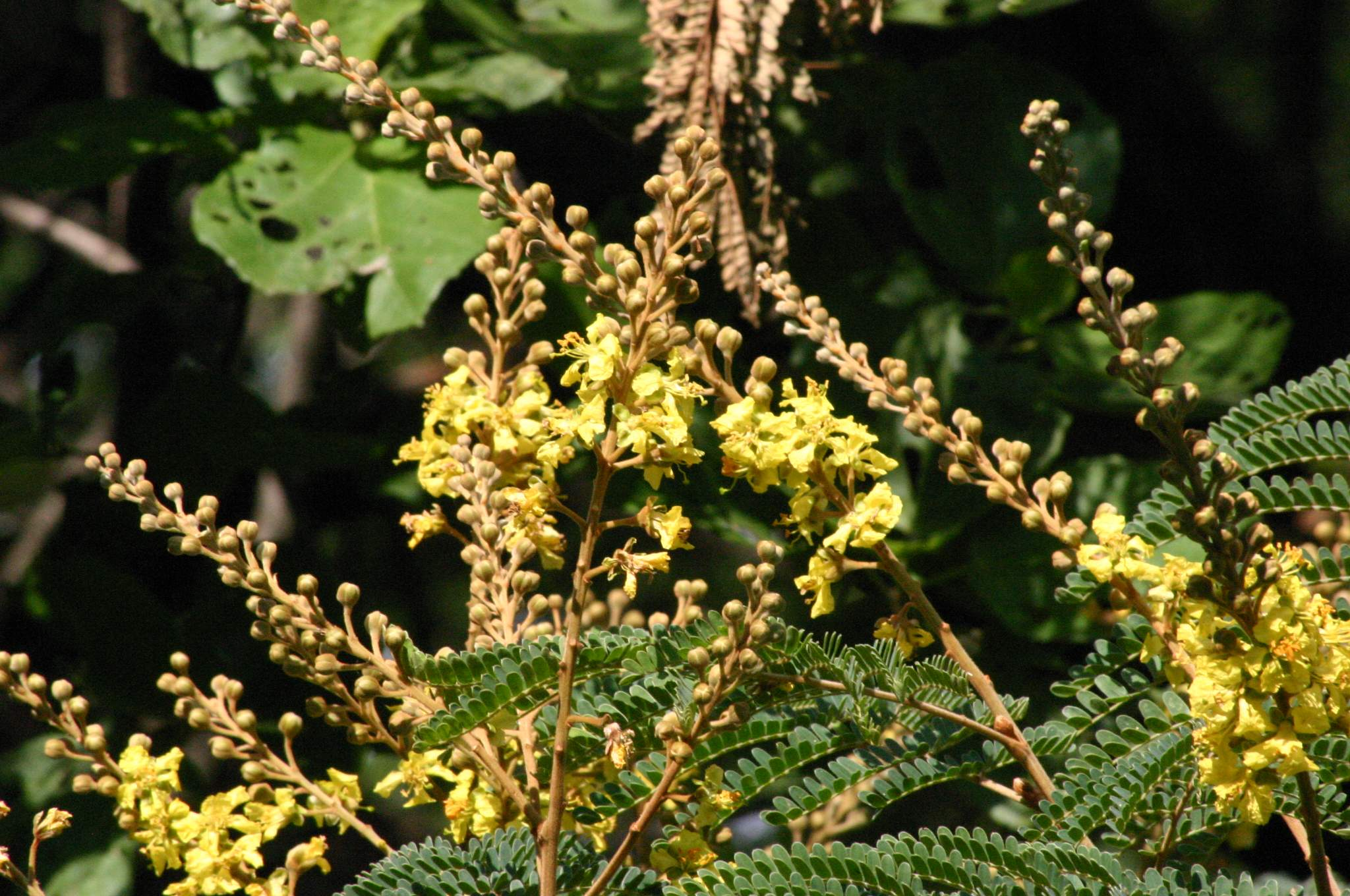 Flowers, buds and leaves of Peltophorum africanum - cultivated tree in Honeydew, Johannesburg